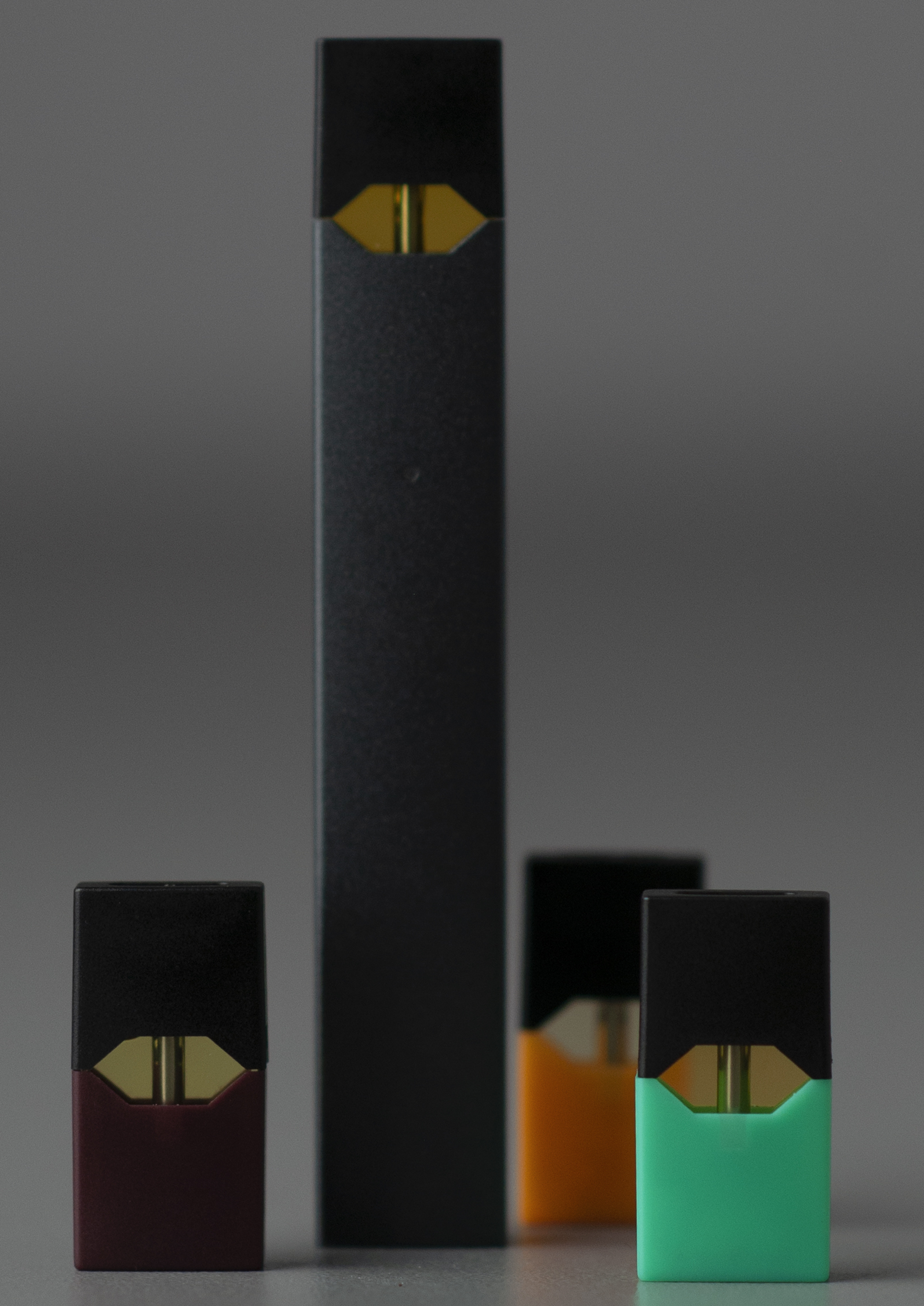 A Juul electronic cigarette, with four 'pods' (one loaded and three next to it).